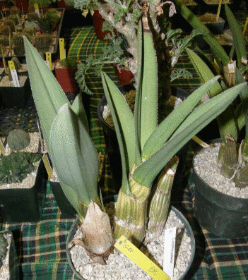 Scaled down image used for illustration purposes of E. Petersii in cultivation